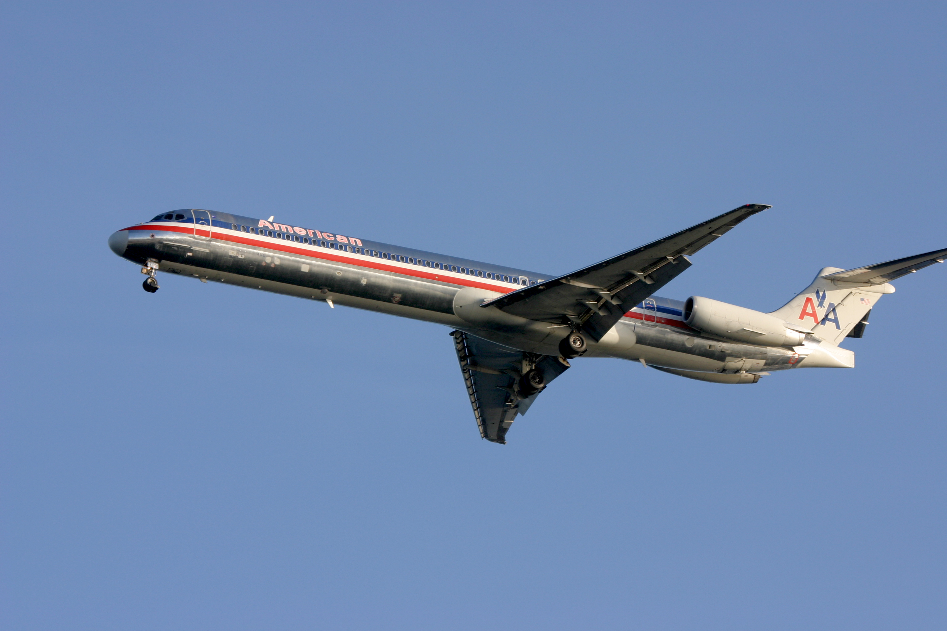 American Airlines MD-80 landing at Logan International Airport (BOS) in November 2006.